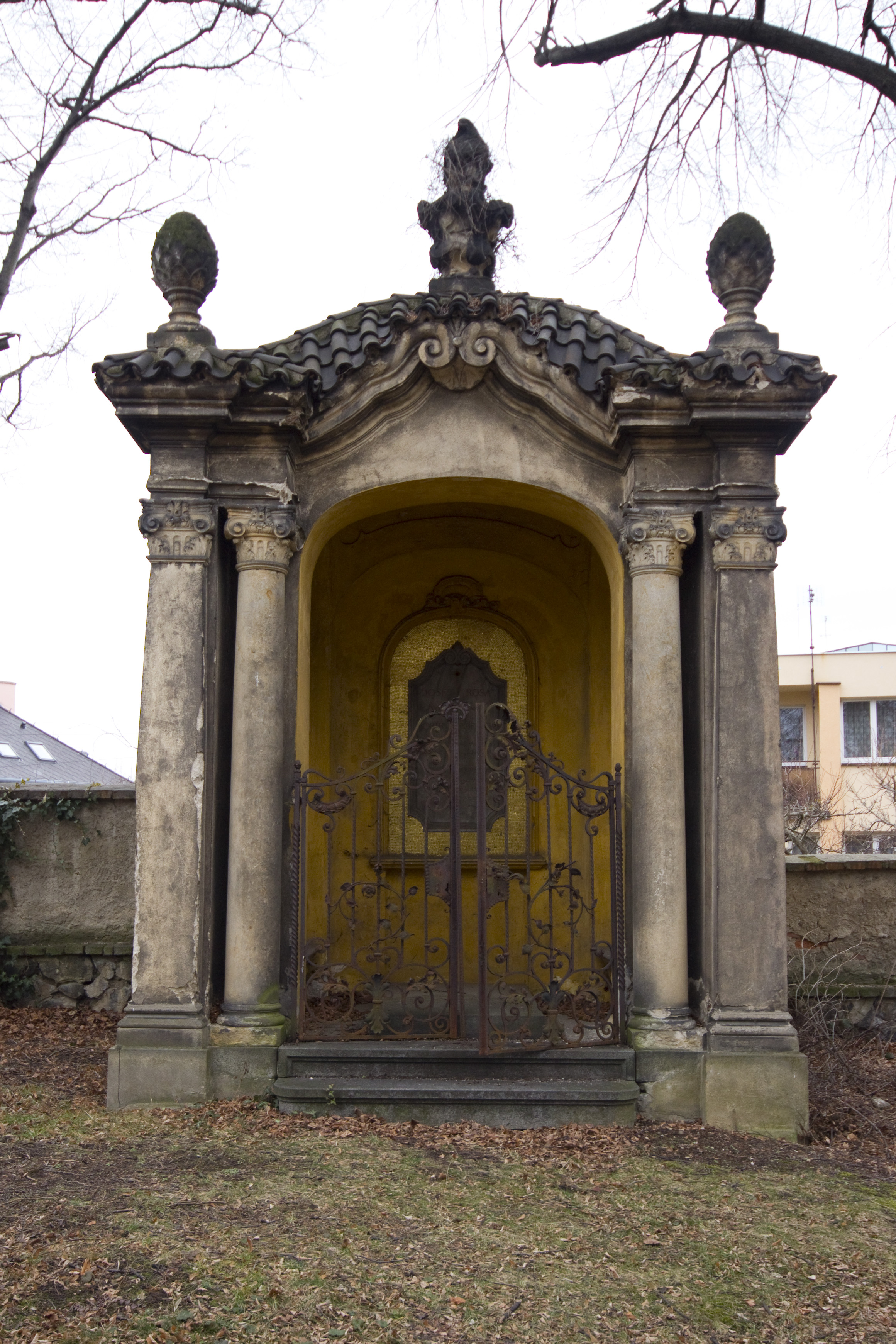 Jewish cemetery at Malvazinky, Prague